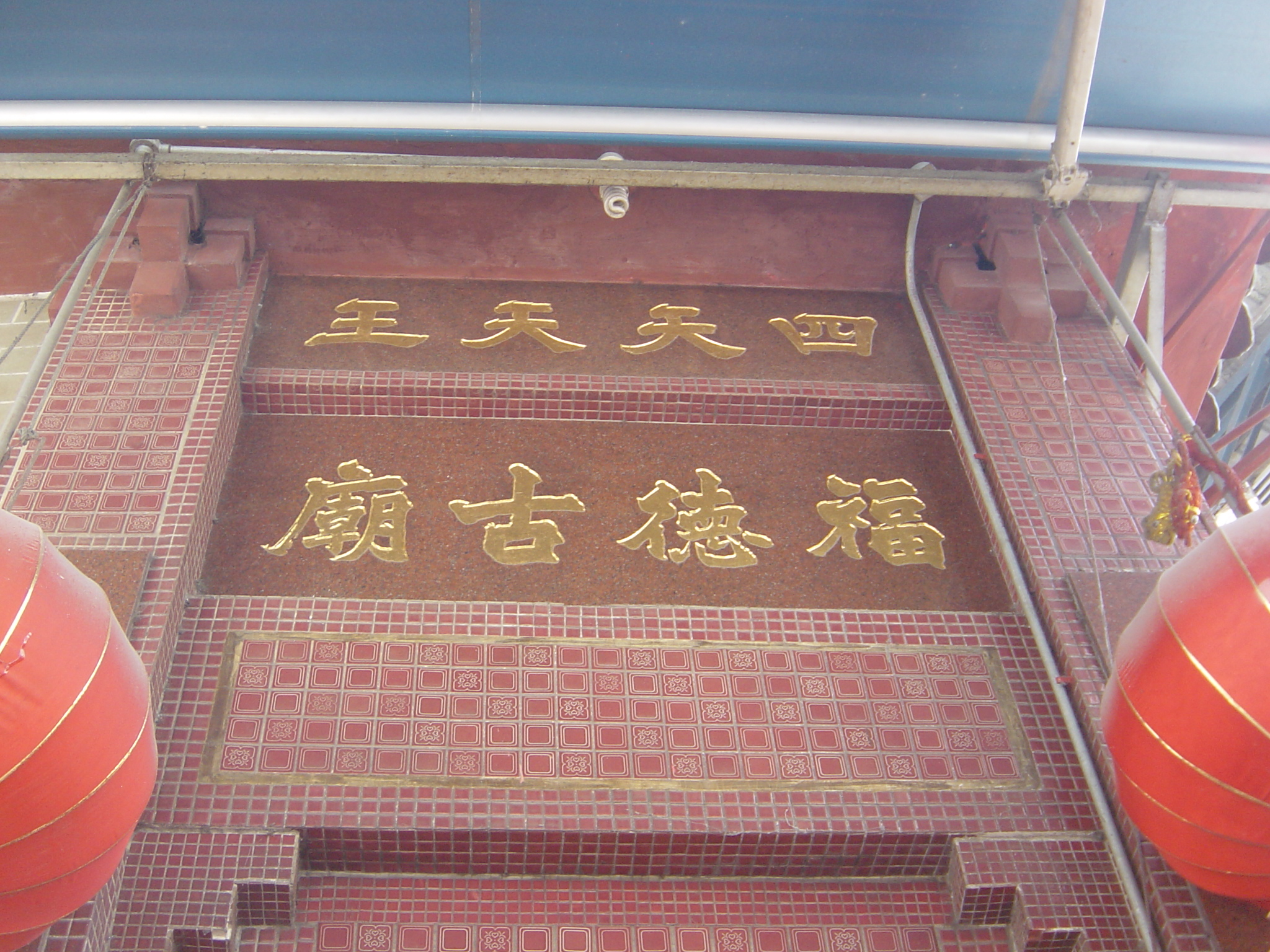 香港尖沙咀福德古廟。A temple of Tu Di Gong in Hong Kong.